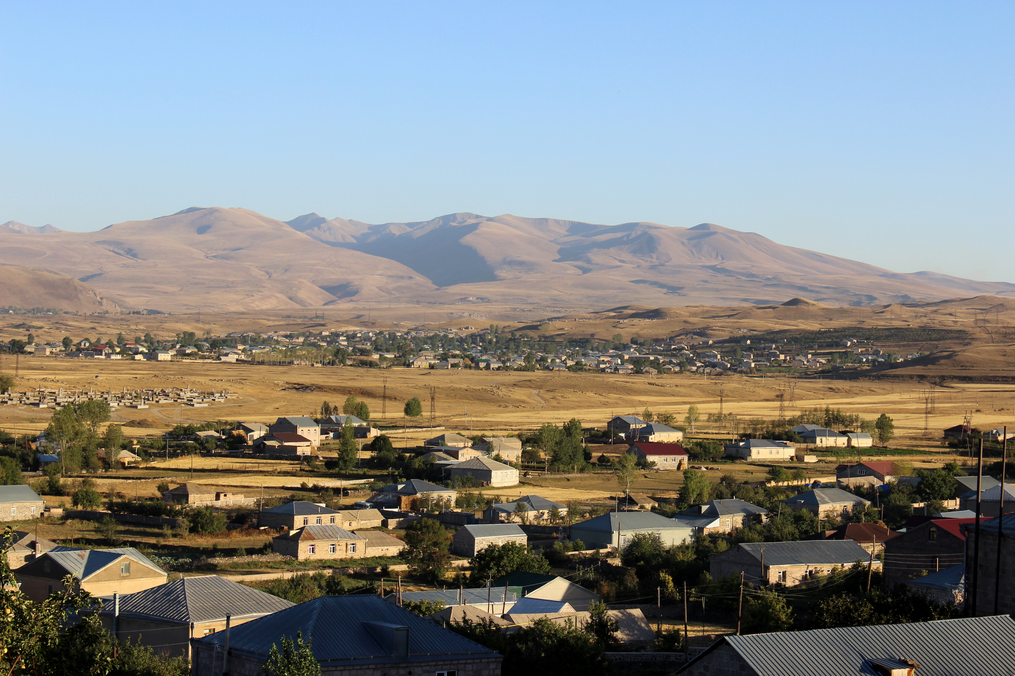 Verin Getashen seen in the background; Lichk is in the foreground, September 2014